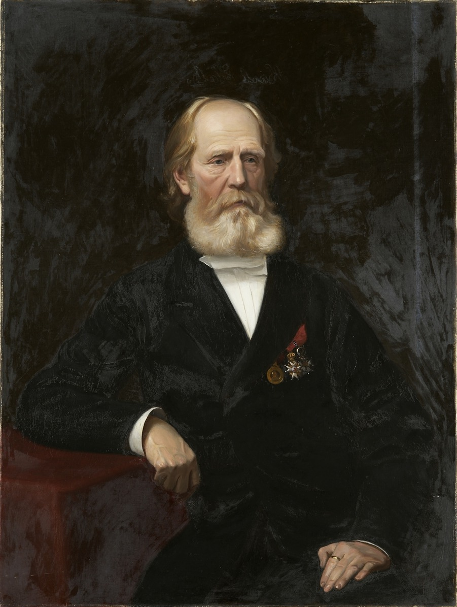 Painting from 1914. Copy of own original from ca. 1890.